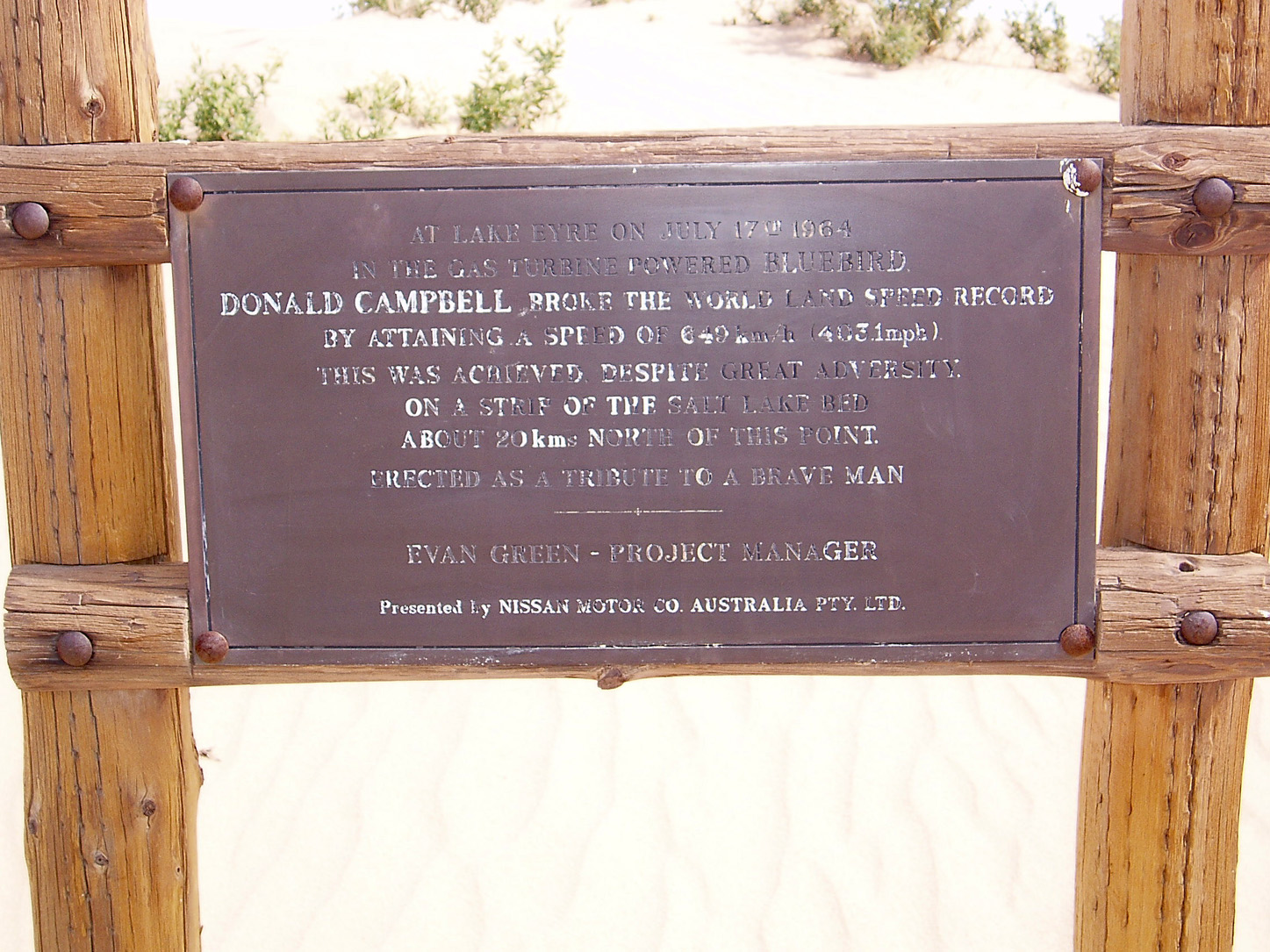 Plaque at Level Post Bay commemorating Sir Donald Campbell's attempt on the World Land Speed record at Lake Eyre